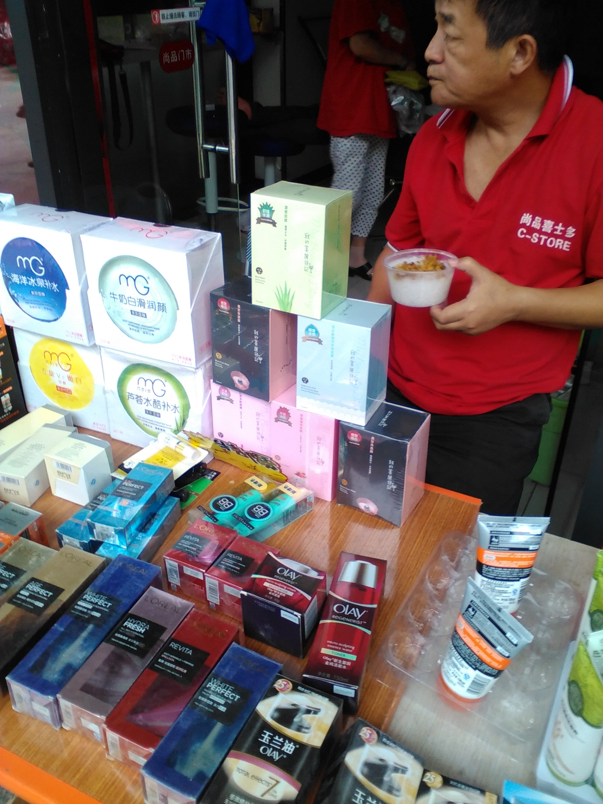 Cosmetics at Clearance of C-Store Convenience Store, Suzhou, China.